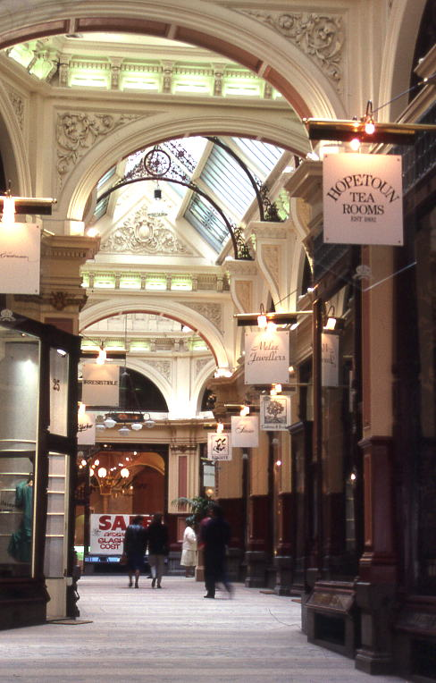 the block, melbourne, australia